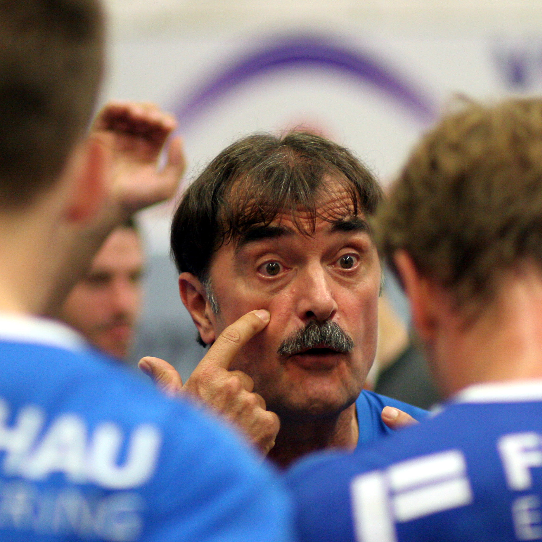 Sead Hasanefendić, handball coach from VfL Gummersbach, on August 30th, 2008 in Ehingen prior a game for the Schlecker Cup 2008